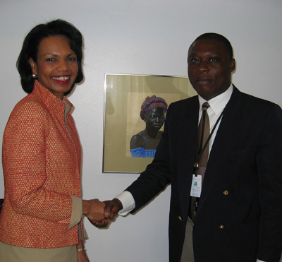 Secretary Rice shakes hands with Wellington Geevon Smith of Liberian STAR radio following her interview (State Department Photo).